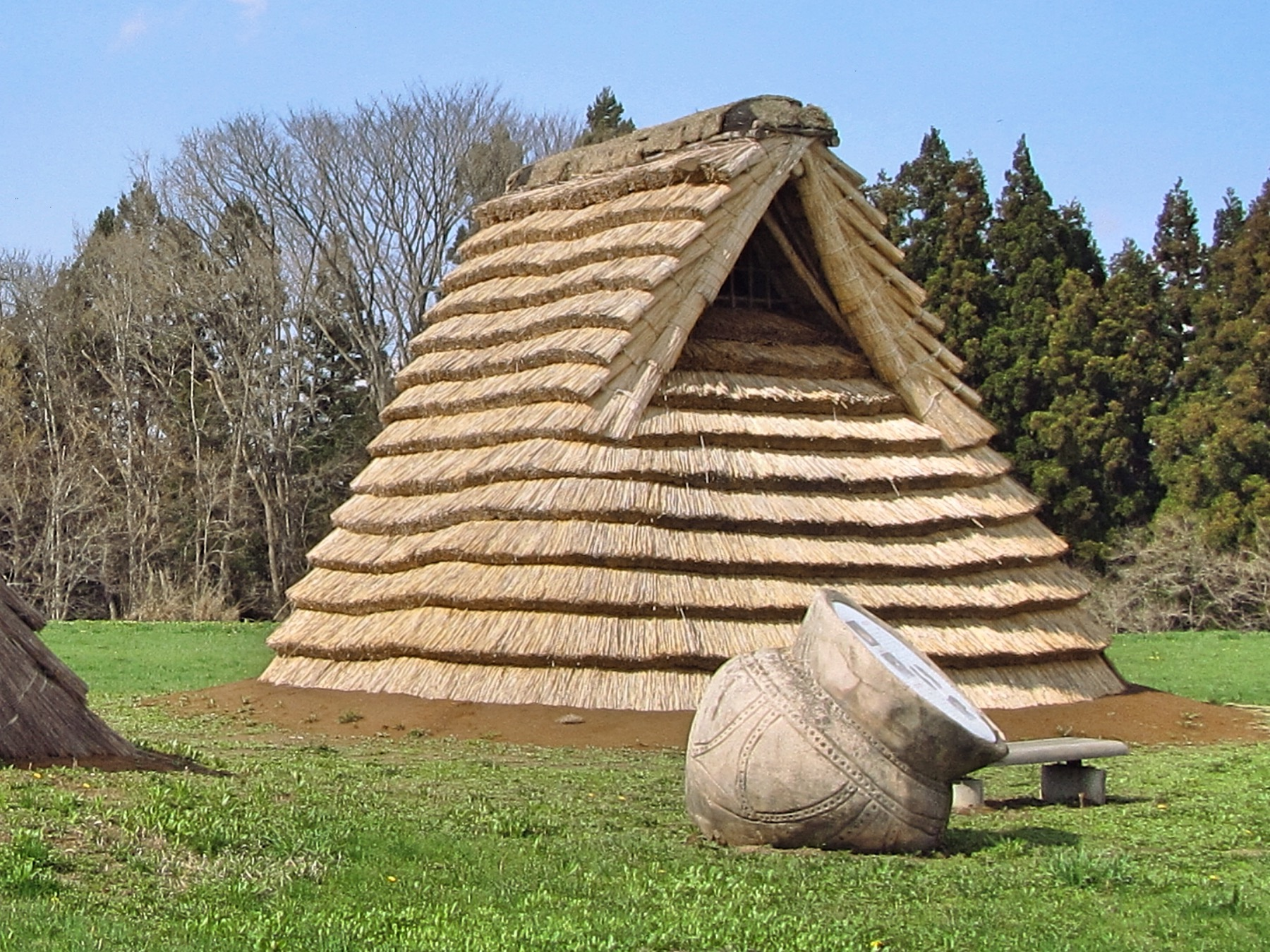 Reconstructed pit dwelling at Futatsumori Shell Midden, Shichinohe, Aomori Prefecture, Japan